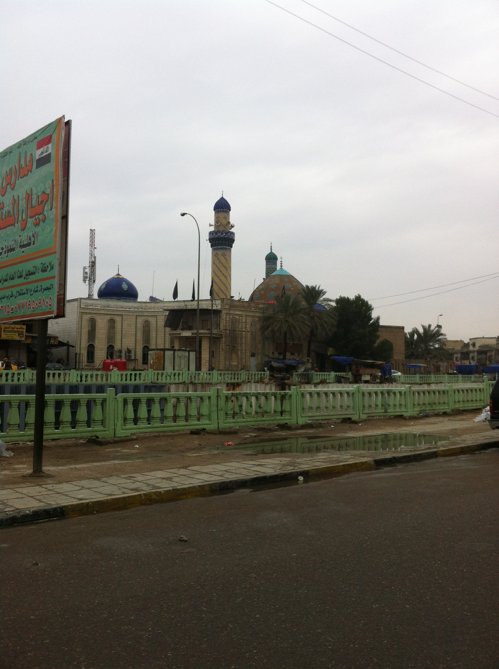 A mosque in Al ash-shaar, Basrah, Iraq